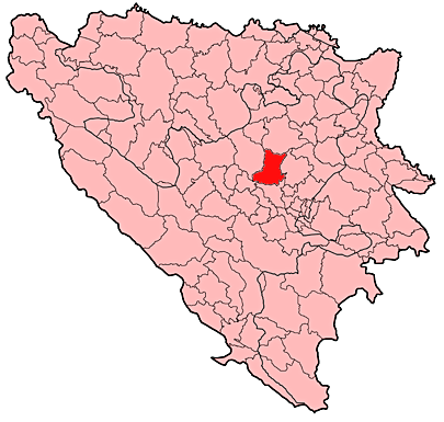 Location of Kakanj municipality in Bosnia and Herzegovina.